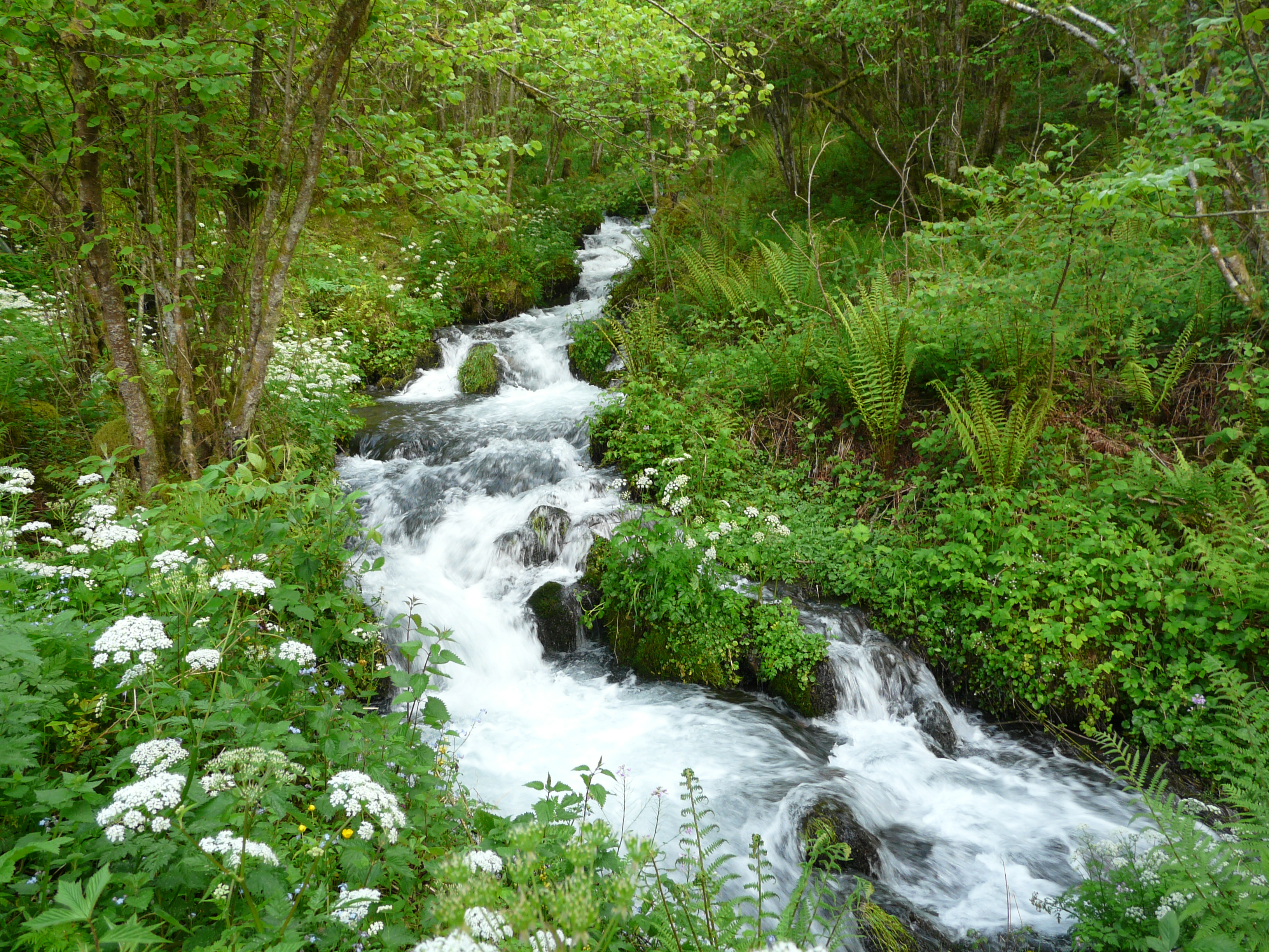 A shot of the Oussouet River near "Fontaine de Labassère"